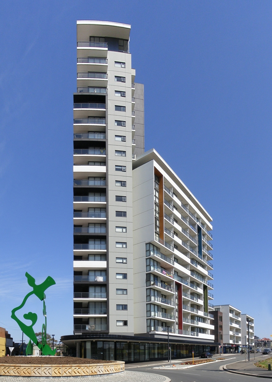 Wolli Creek, New South Wales